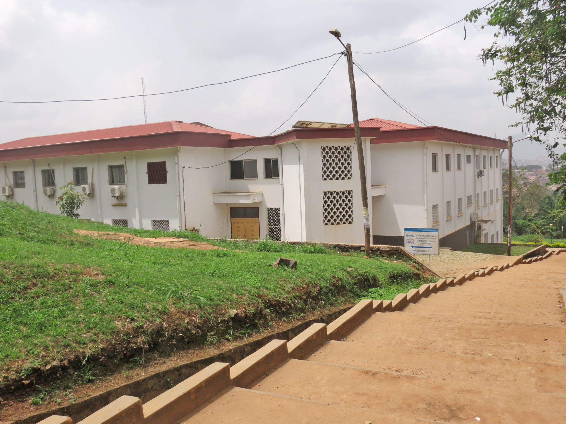 Building with the offices of the DAAD (German Academic Exchange Service) at Ngoa-Ekelle campus in Yaoundé.